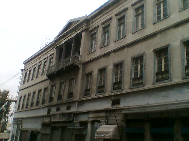 A plaque read: "In this building took place the 1st, founding congress of the Communist Party of Greece (SEKE/KKE) in 17 - 23 November 1918.